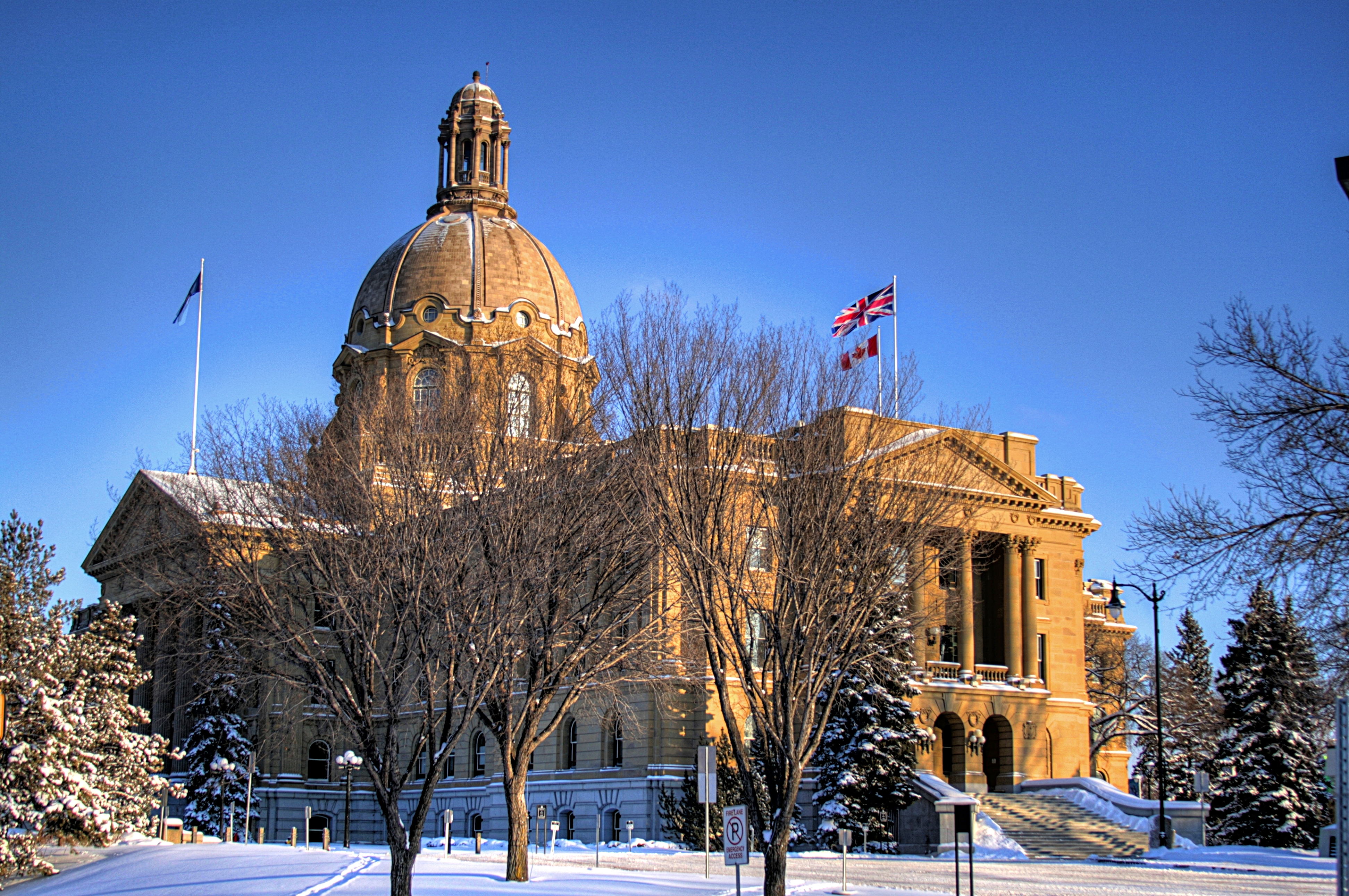 The Alberta Provincial Legislature Building in Edmonton, Alberta, Canada.